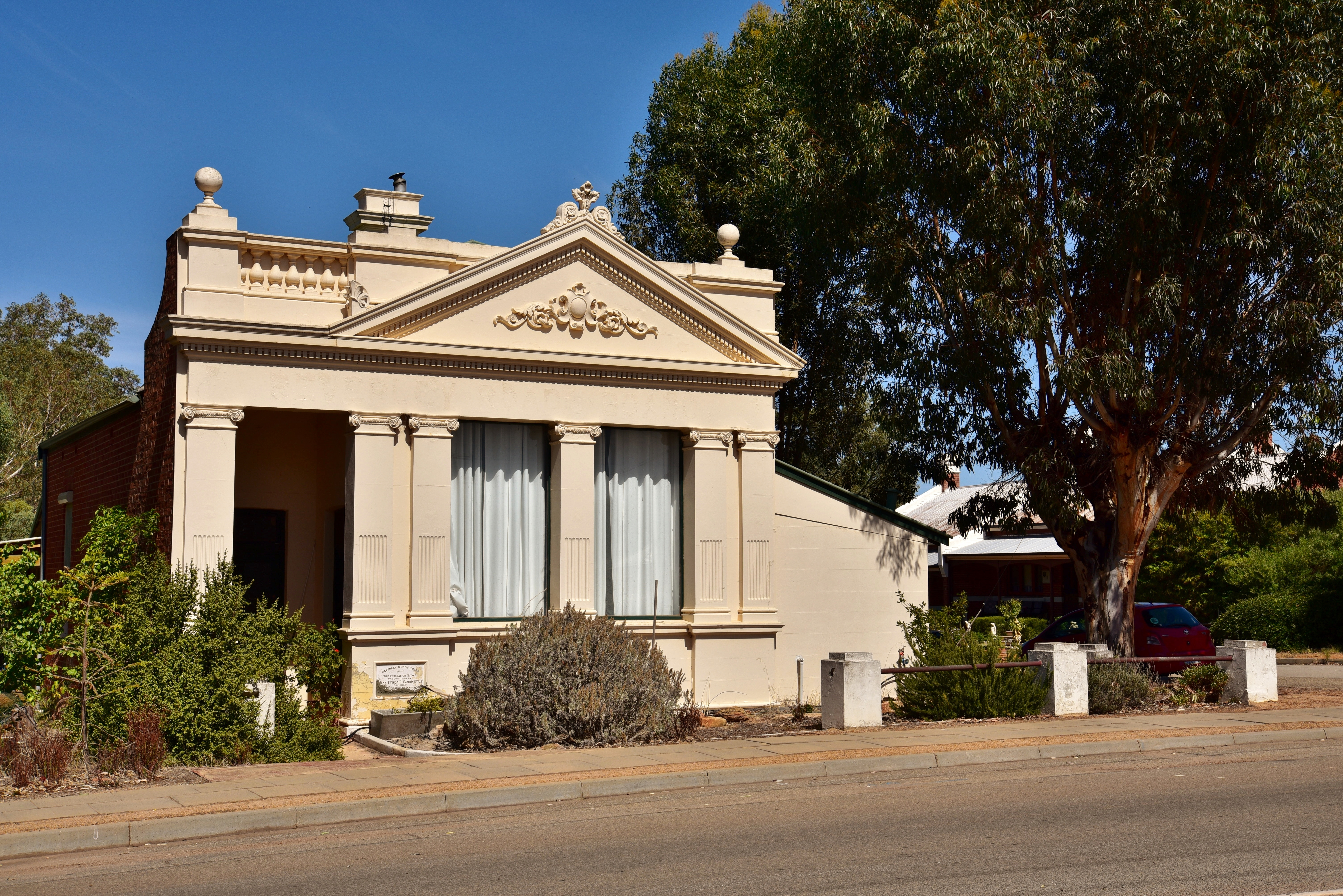 The former Road Board Office, Vincent Street, Beverley, Western Australia